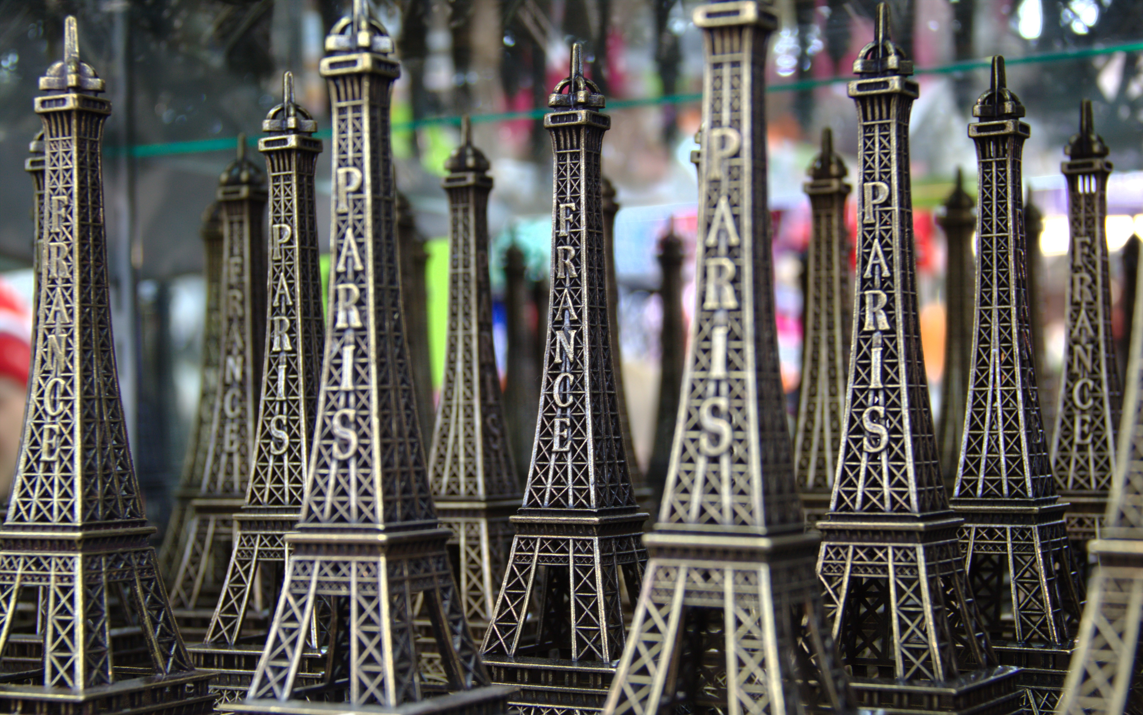 Eiffel tower models in the souvenirs shop